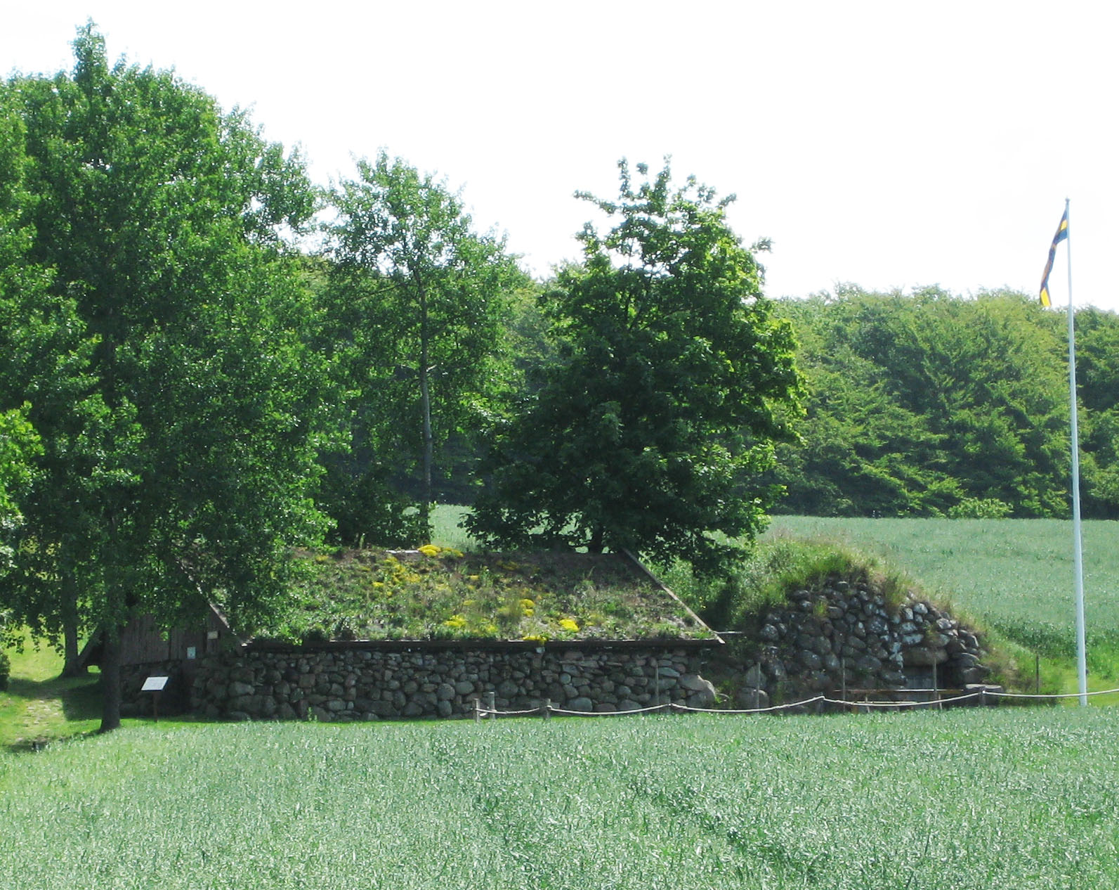 A swedish "linbasta" (en: Flax House, de: Flachs-sauna) in Förslöv, Skåne. Photo by the uploader.